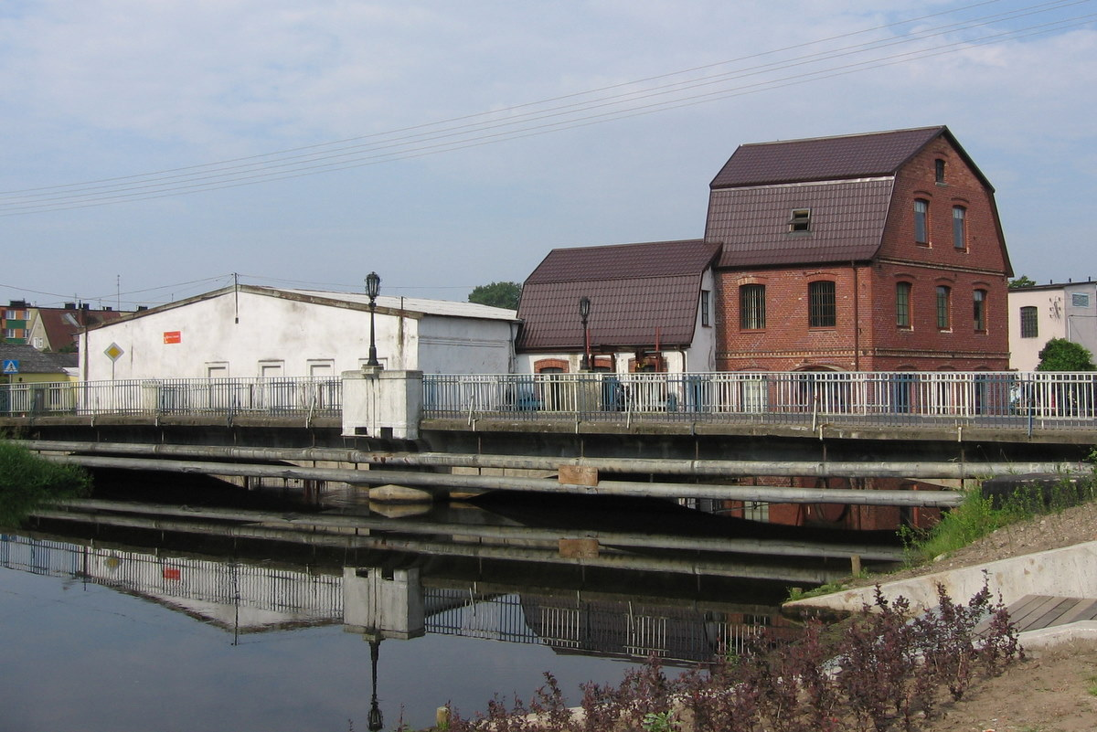 Bridge over Rega river in Resko, Poland